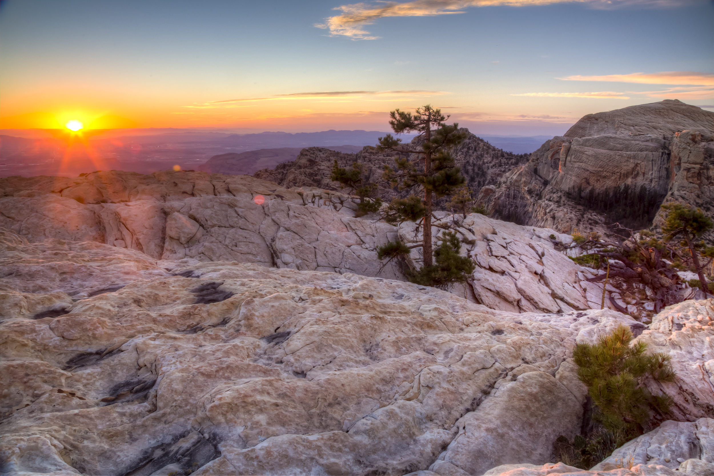 Welcome to Red Rock Canyon National Conservation Area Red Rock Canyon was designated as Nevada's first National Conservation Area. Red Rock Canyon is located 17 miles west of the Las Vegas Strip on Charleston Boulevard/State Route 159. The area is visited by more than two million people each year. In marked contrast to a town geared to entertainment and gaming, Red Rock offers enticements of a different nature including a 13-mile scenic drive, miles of hiking trails, rock climbing, horseback riding, mountain biking, road biking, picnic areas, nature observing and visitor center with indoor and outdoor exhibits as well as a book store.